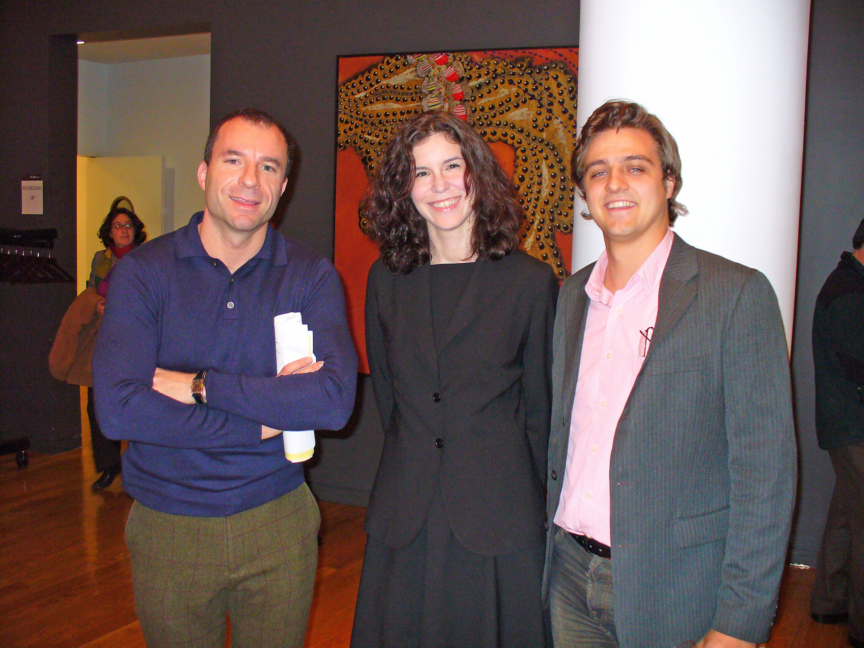 Alan Miller, Megan McArdle, and Christopher Hayes by David Shankbone